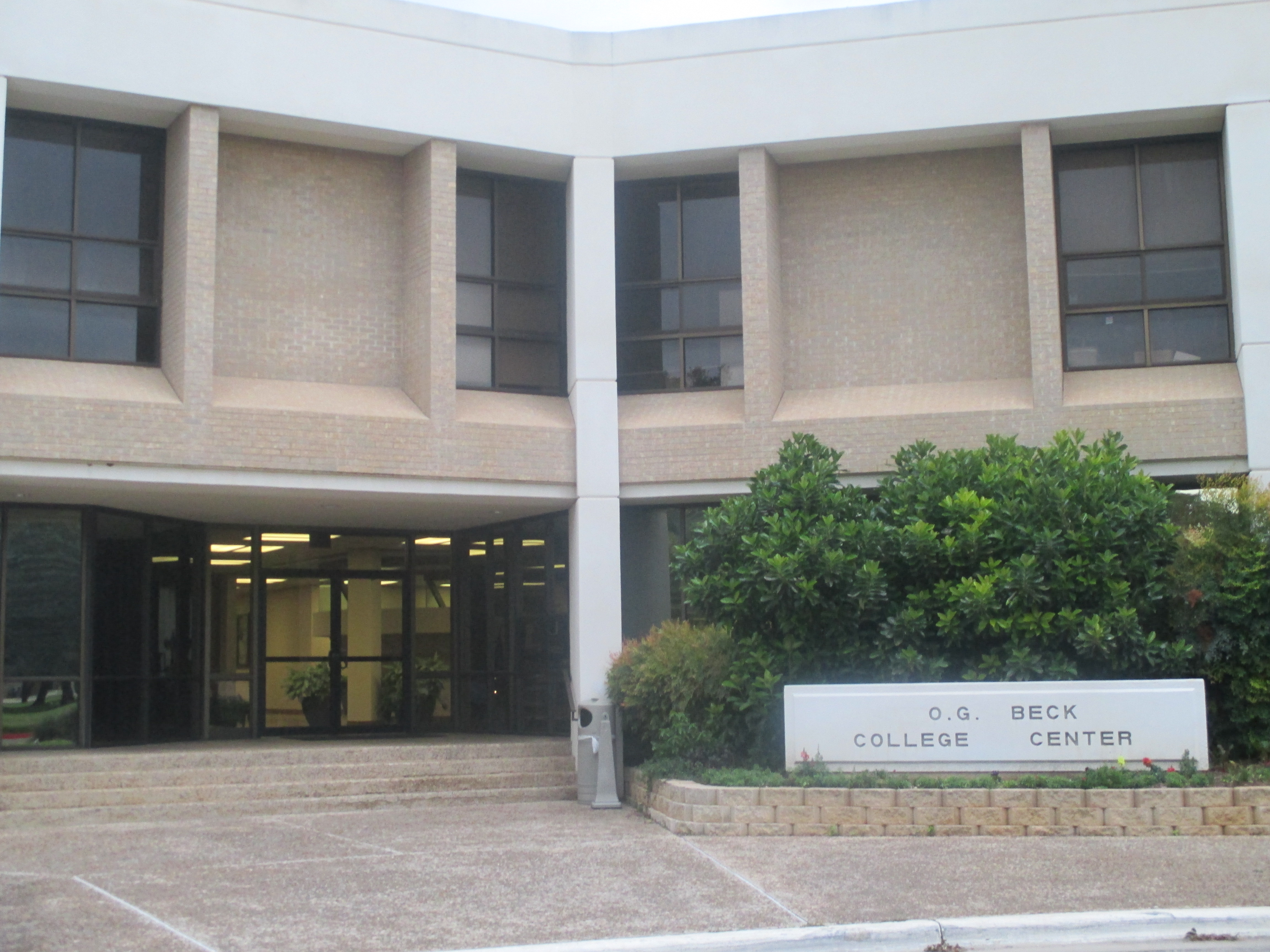 I took photo with Canon camera of O.G. Beck College center at Texas Lutheran University in Seguin.